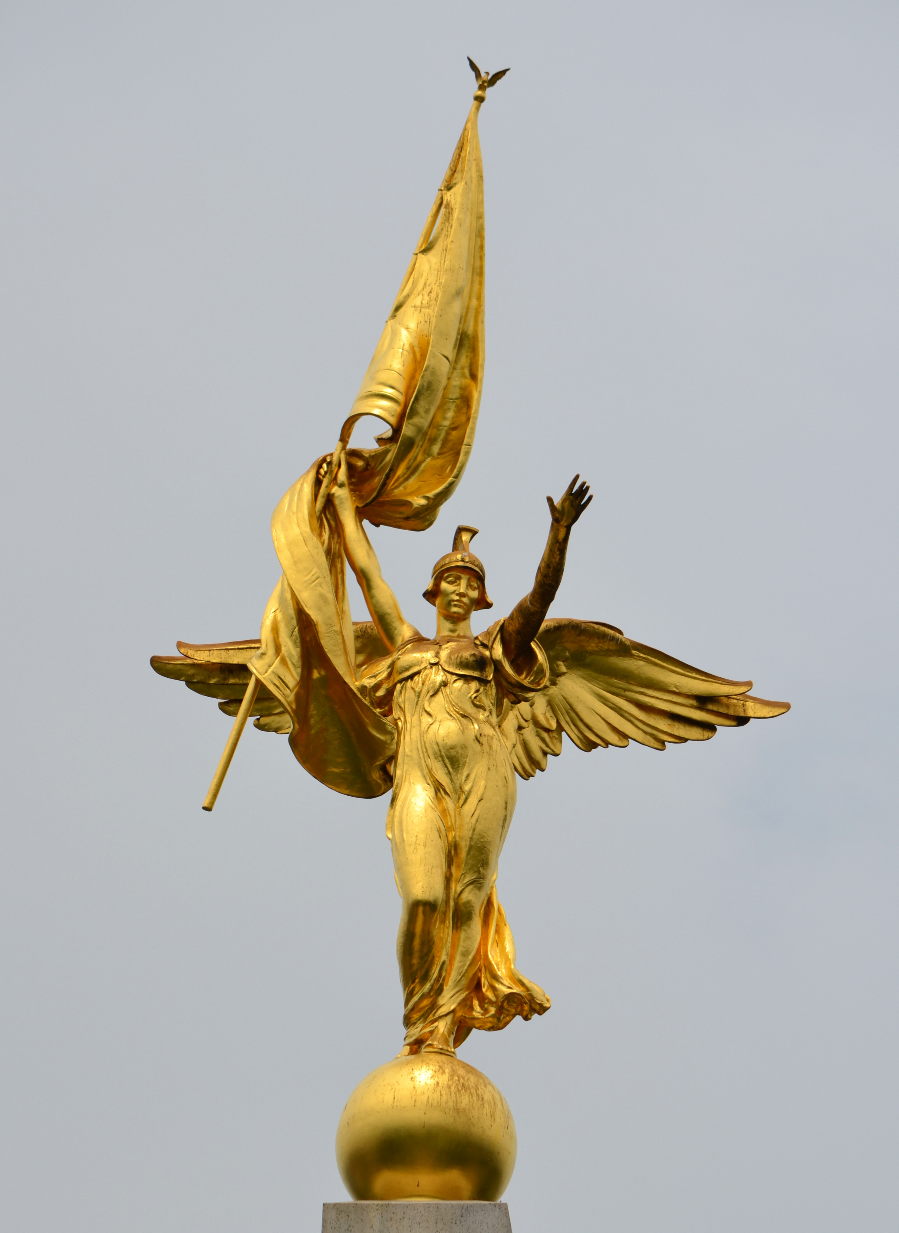 Statue on top of First Division Monument, Washington DC.